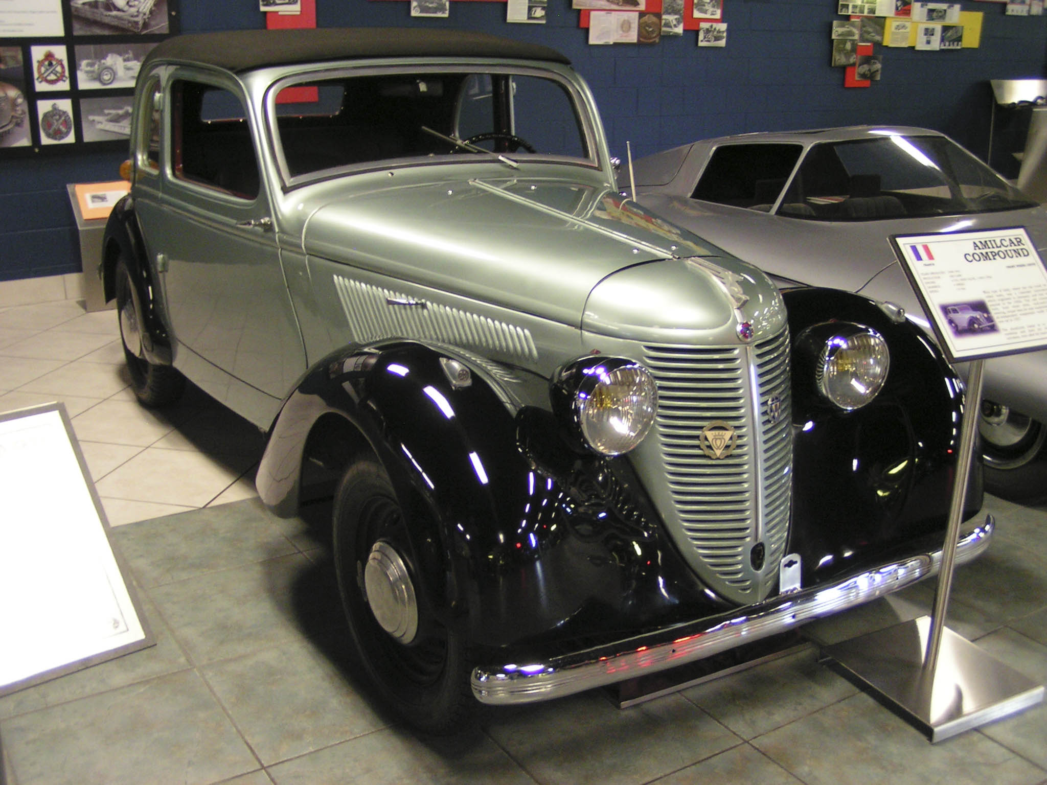 Amilcar Compound Very modern car when introduced in 1937 with aluminum body, front wheel drive, rack and pinion steering and four wheel independent suspension. The engine was not quite as modern being a side valve four cylinder of 1185cc giving 34hp. Less than a thousand made.